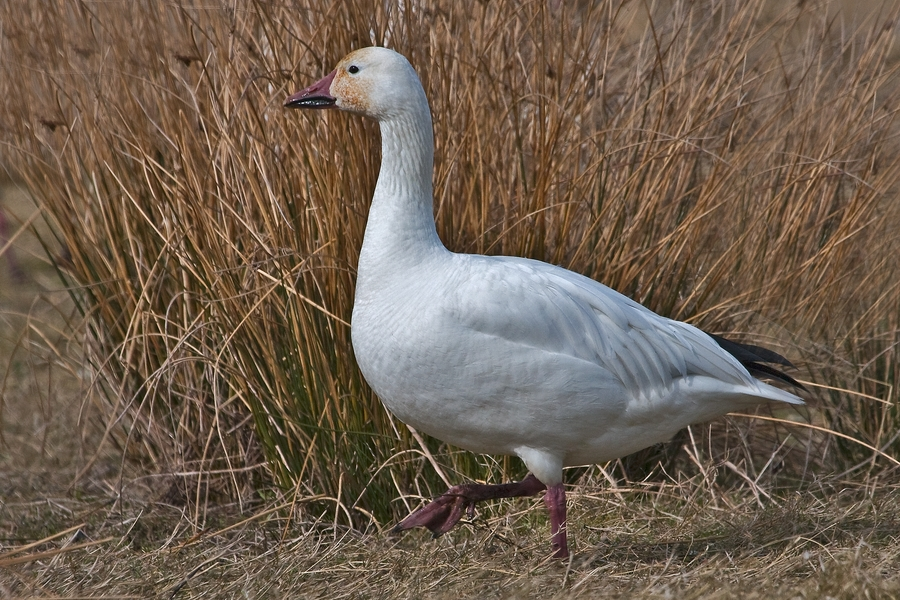 Lesser Snow Goose, Near Terra Nova Natural Area, Richmond, British Columbia